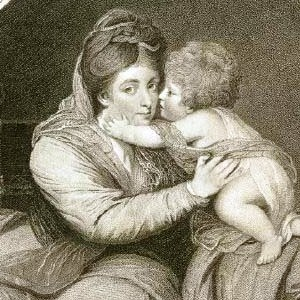 Lady Melbourne - Elizabeth Lamb - died 1818. Crop of image of painting called "Maternal Love" with Lady M and eldest so - Peniston Lamb